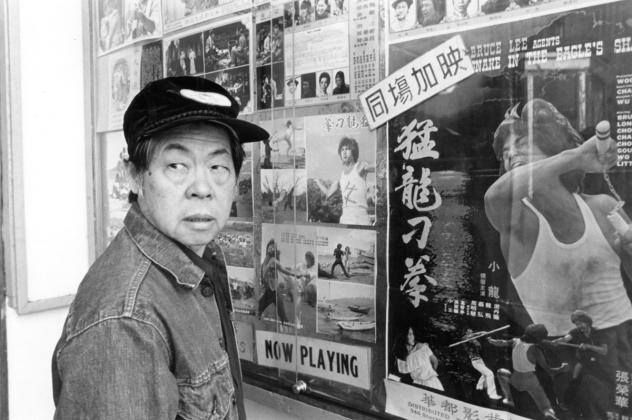 Woody Moy, actor in front of a movie theater on Kearny Street and Pacific Avenue in San Francisco's Chinatown. 1981 photo by Nancy Wong